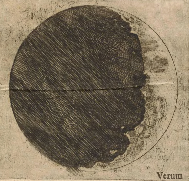 Sickle-moon illustration from the seminal work by Galileo Galilei circa 1610